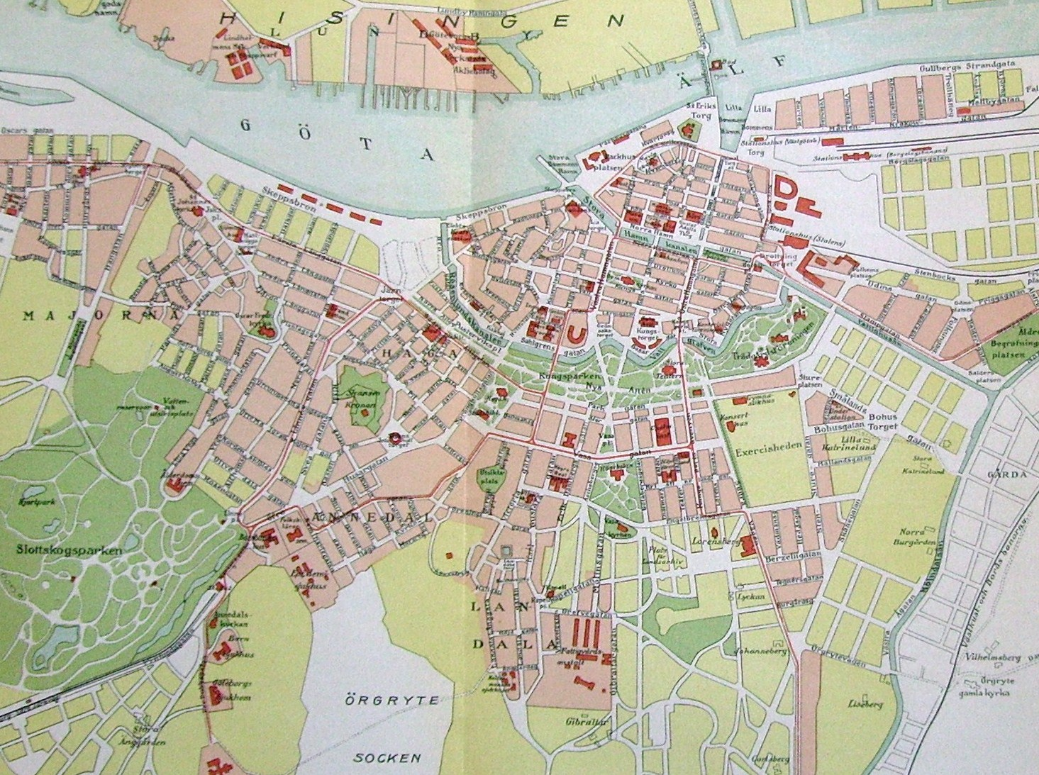 Picture of a map of Göteborg